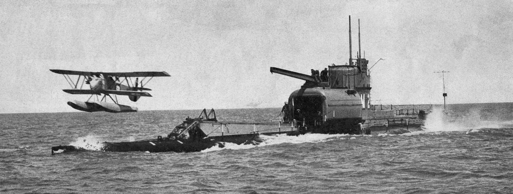 HMS M2 and her Sea Plane.